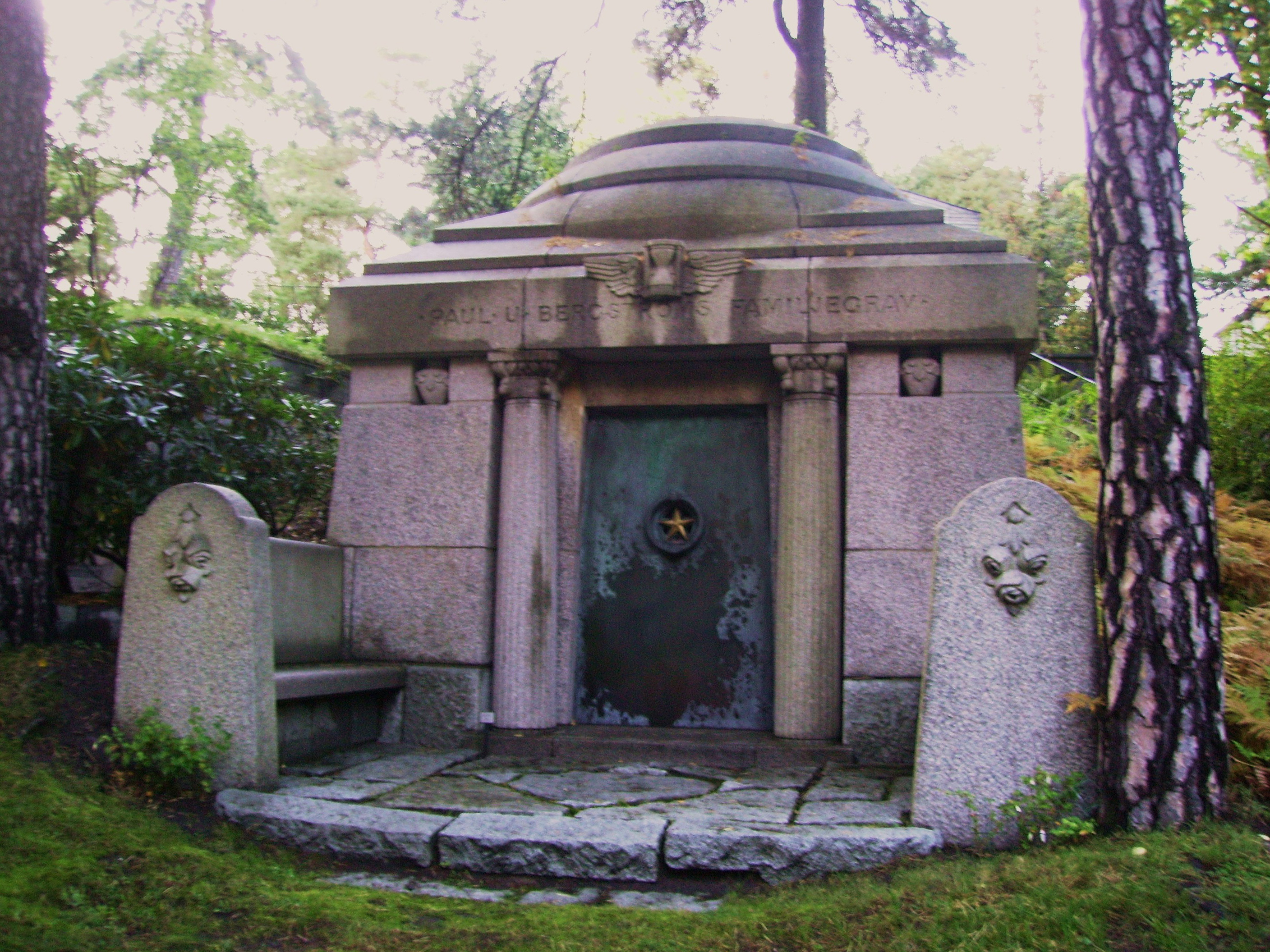 Picture of Paul Urban Bergström's grave at Norra begravningsplatsen in Stockholm